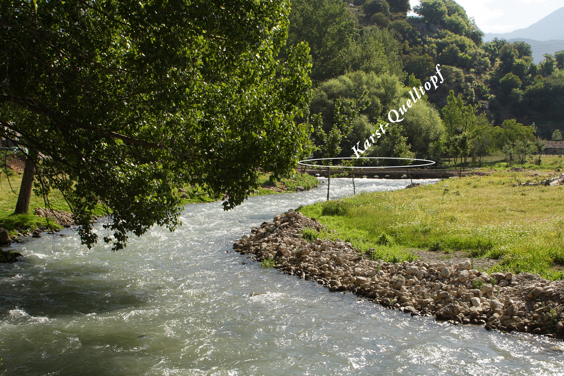 karst spring in district Achaea, Peloponnese, Greece in May 2006. The ca. 20m wide oval spring pit, shaded by big trees, discharges seasonally varying, but enormous quantities of water, as may be seen on the photo, made from right behind the spring. There is a large catchment area: The snow covered massif Aroania and the katavothren (Greek term for ponors) of the depression plateau Feneos. The fast transport through large joints of tectonic origin indicates a lack of long aquifer-filtering. Unfortunately this jewel of a spring is not (nature-)protected, but untouched in its hidden seclusion!